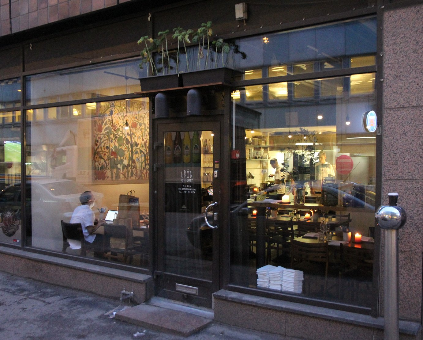 Restaurant Grön, with address Albertinkatu 36, 00180 Helsinki, Finland, . It is the Restaurant of the Year 2017 in Finland. Restaurateurs are Toni Kostian (Chef of the Year 2016 in Finland) ja Lauri Kähkönen. This photo was taken some 1 hour 50 min before restaurant was opened to customers.